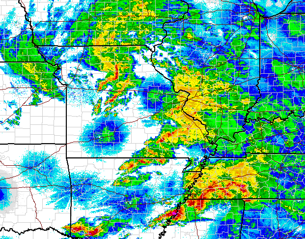 Regional radar of the thunderstorms that produced and were producing tornadoes in the north-central United States